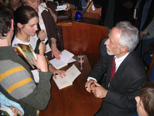 J. M. Coetzee with his audience in Cracow (Jagiellonian University)